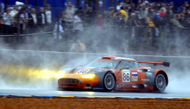 Janis in Le Mans